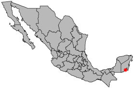 Locator map of Chetumal, Quintana Roo, Mexico